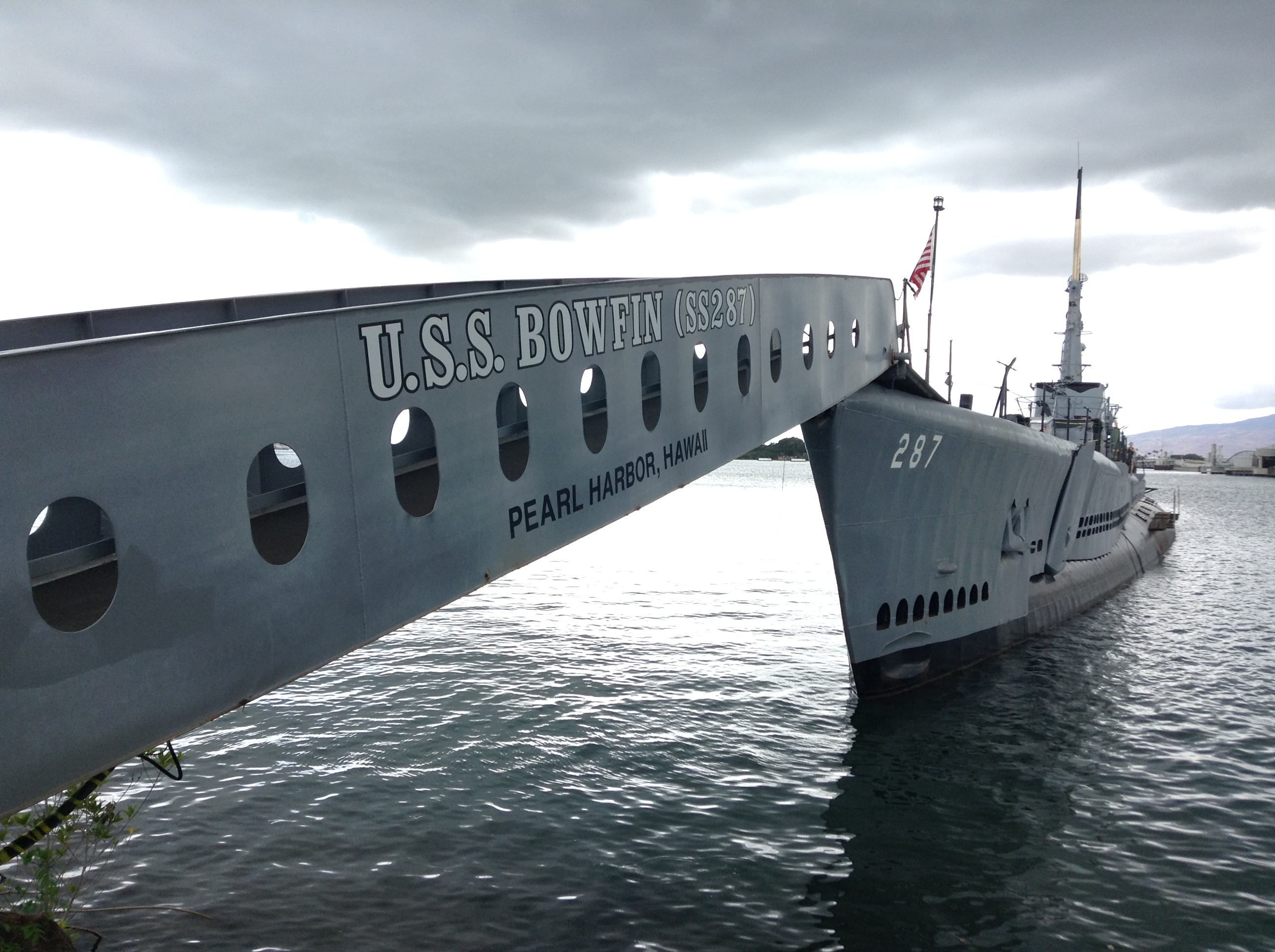 USS Bowfin at Pearl Harbor in Hawaii.